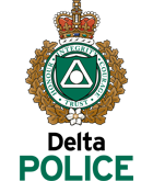 The Delta Police Crest is provided by the Delta Police Department Public Affairs Division.